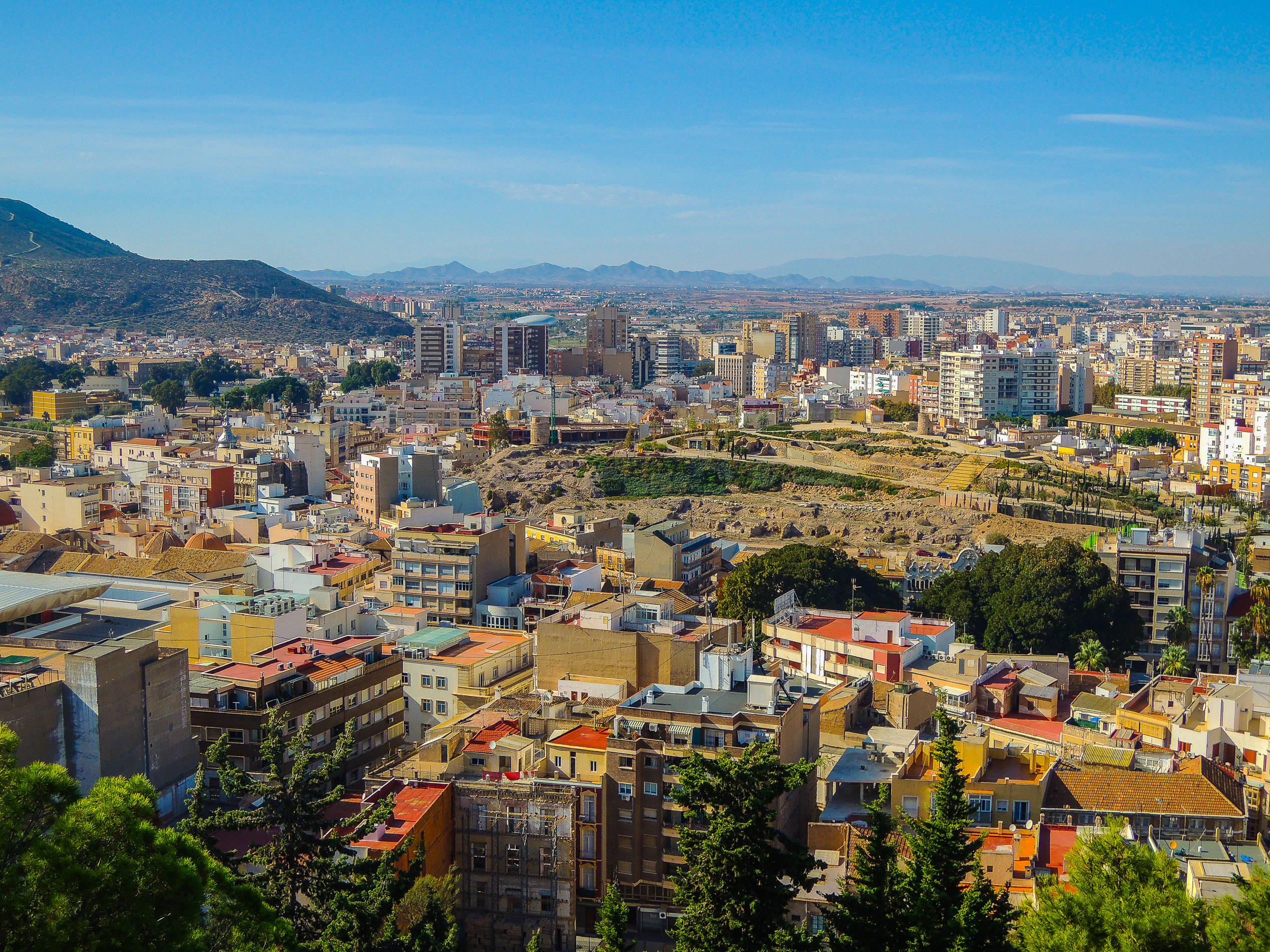 View of the Spanish city of Cartagena (Region of Murcia) from the viewpoint of Concepción Castle. In the center of the image the Molinete Hill Archaeological Park is seen.